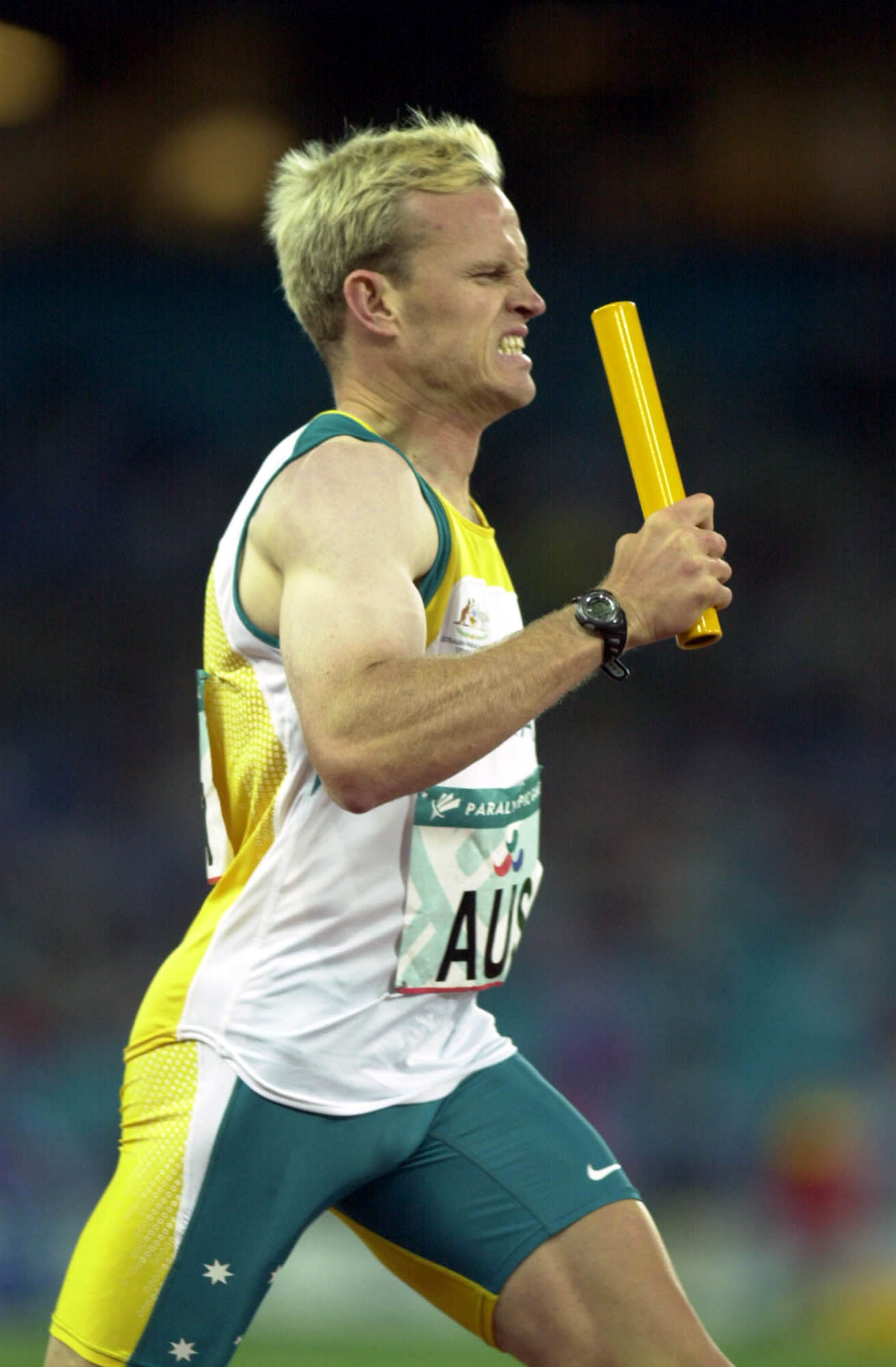 Action shot of Australian track athlete Tim Matthews (close up) during the 4 x 400 m T46 relay event at the 2000 Sydney Paralympic Games, Day 06. He and his teammates (Stephen Wilson, Neil Fuller and Heath Francis) won gold in this event.